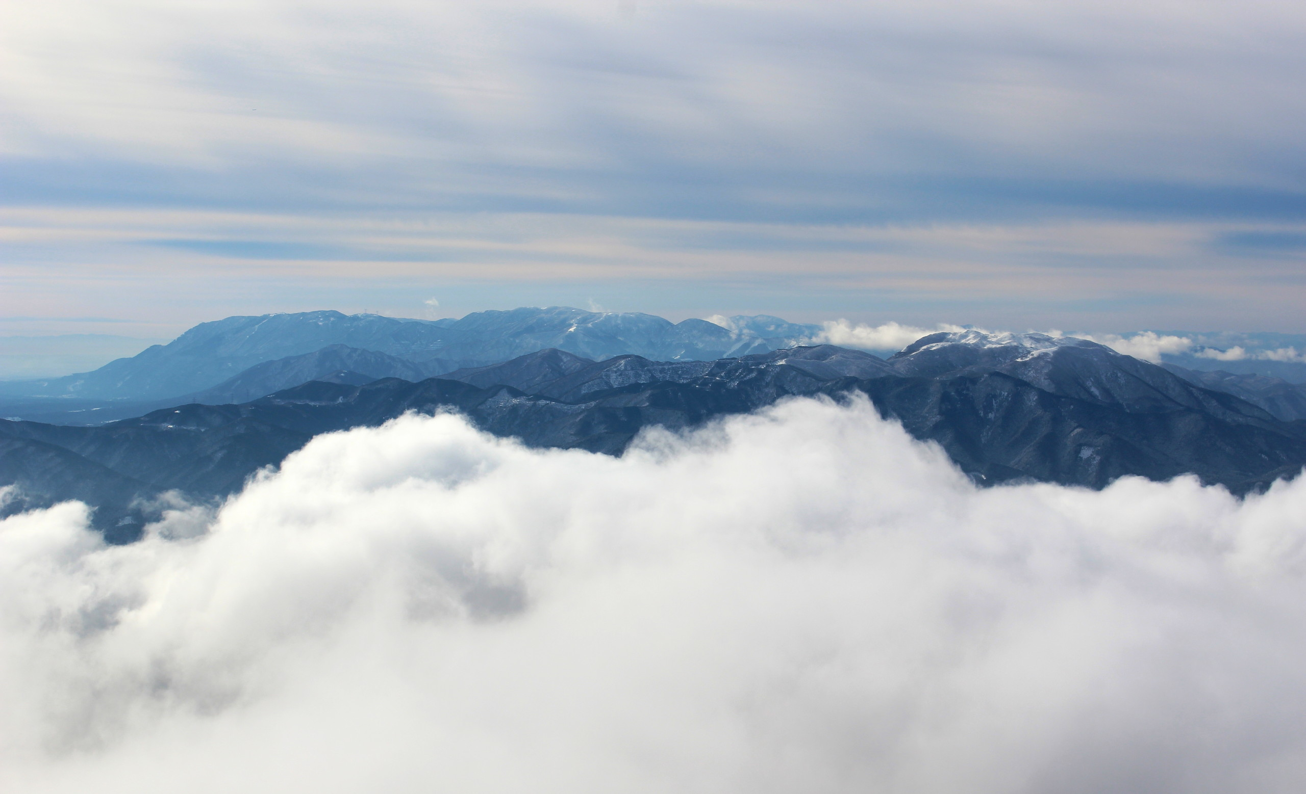 Suzuka Mountains from Mount Ibuki, in Japan.